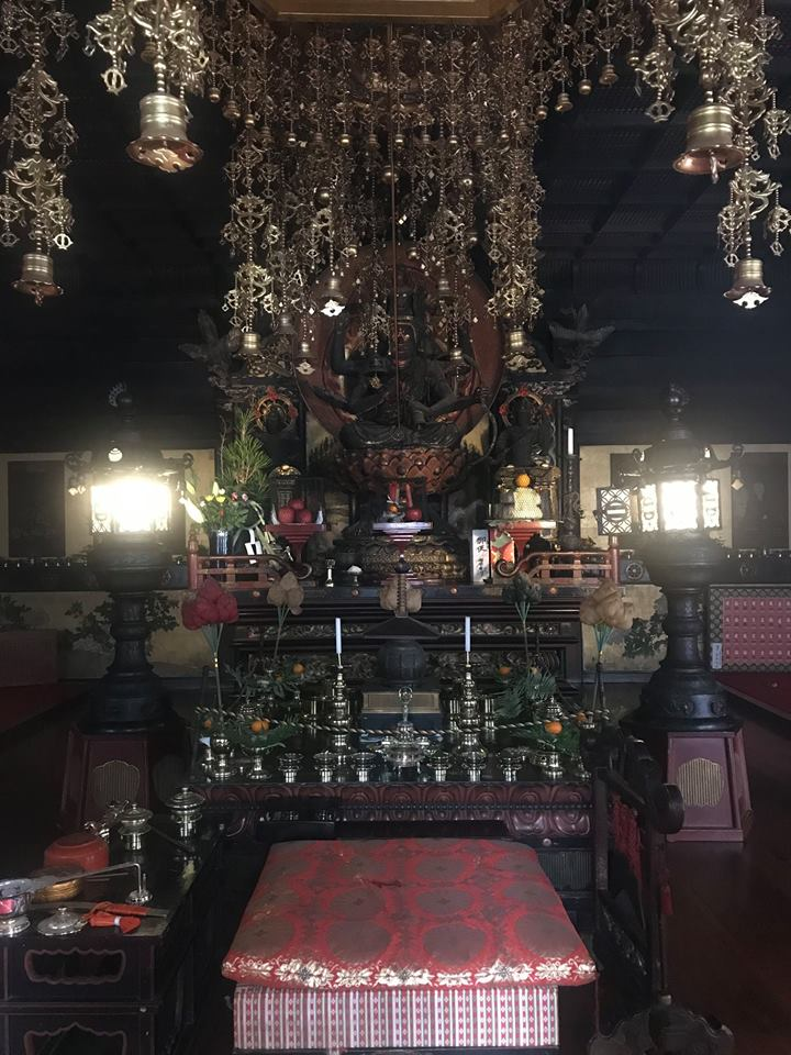 The deity Aizen Myōō in the temple Kongō-Sanmai-in, Kyoasan (Japan)